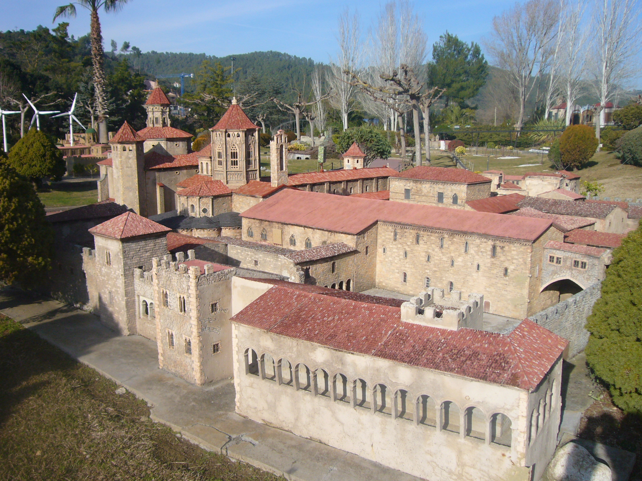 Scale model at the "Catalunya en Miniatura" miniature park : Monastery of Poblet